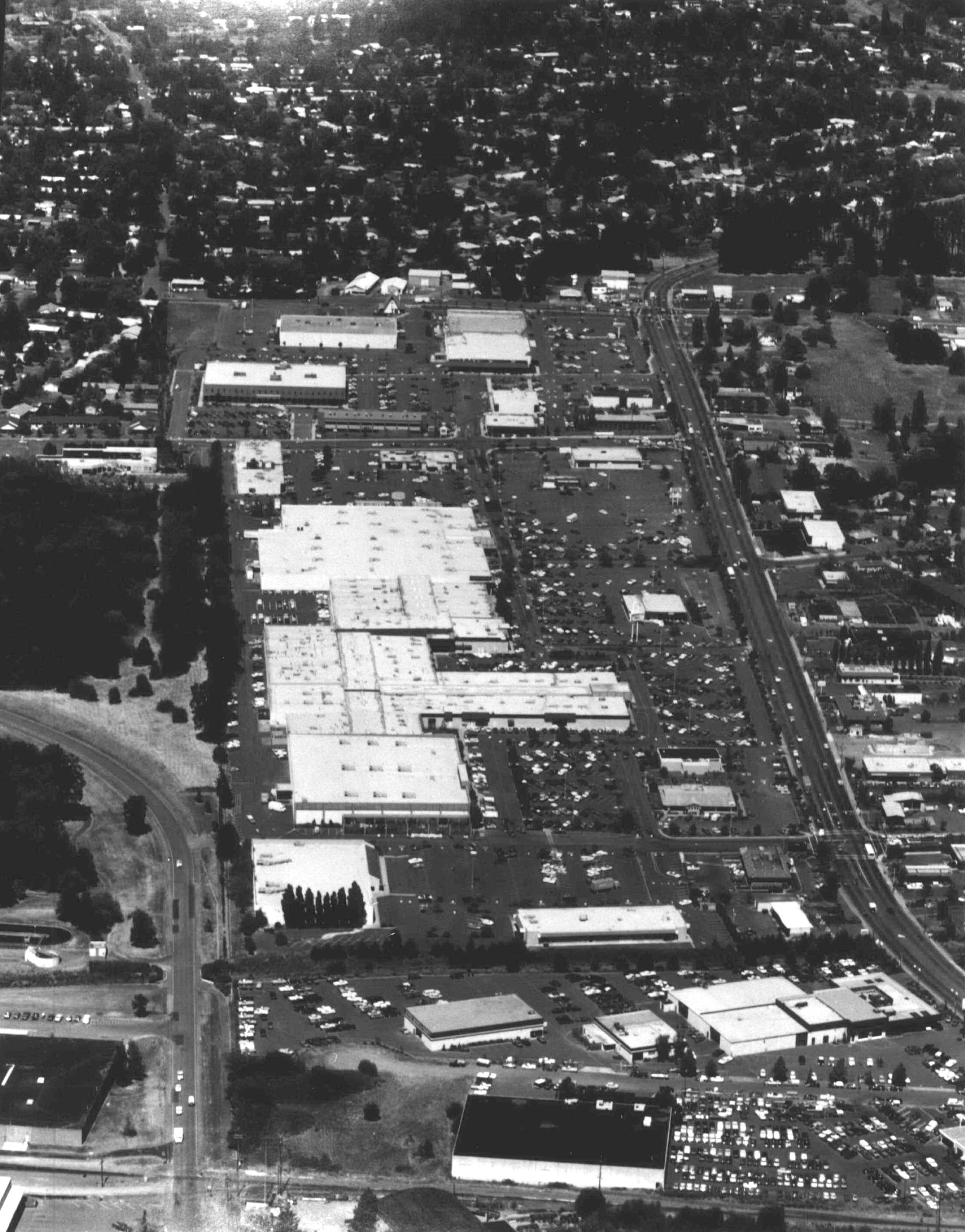 Beaverton Mall, August 1984, looking north. Historical images of Beaverton, Oregon.